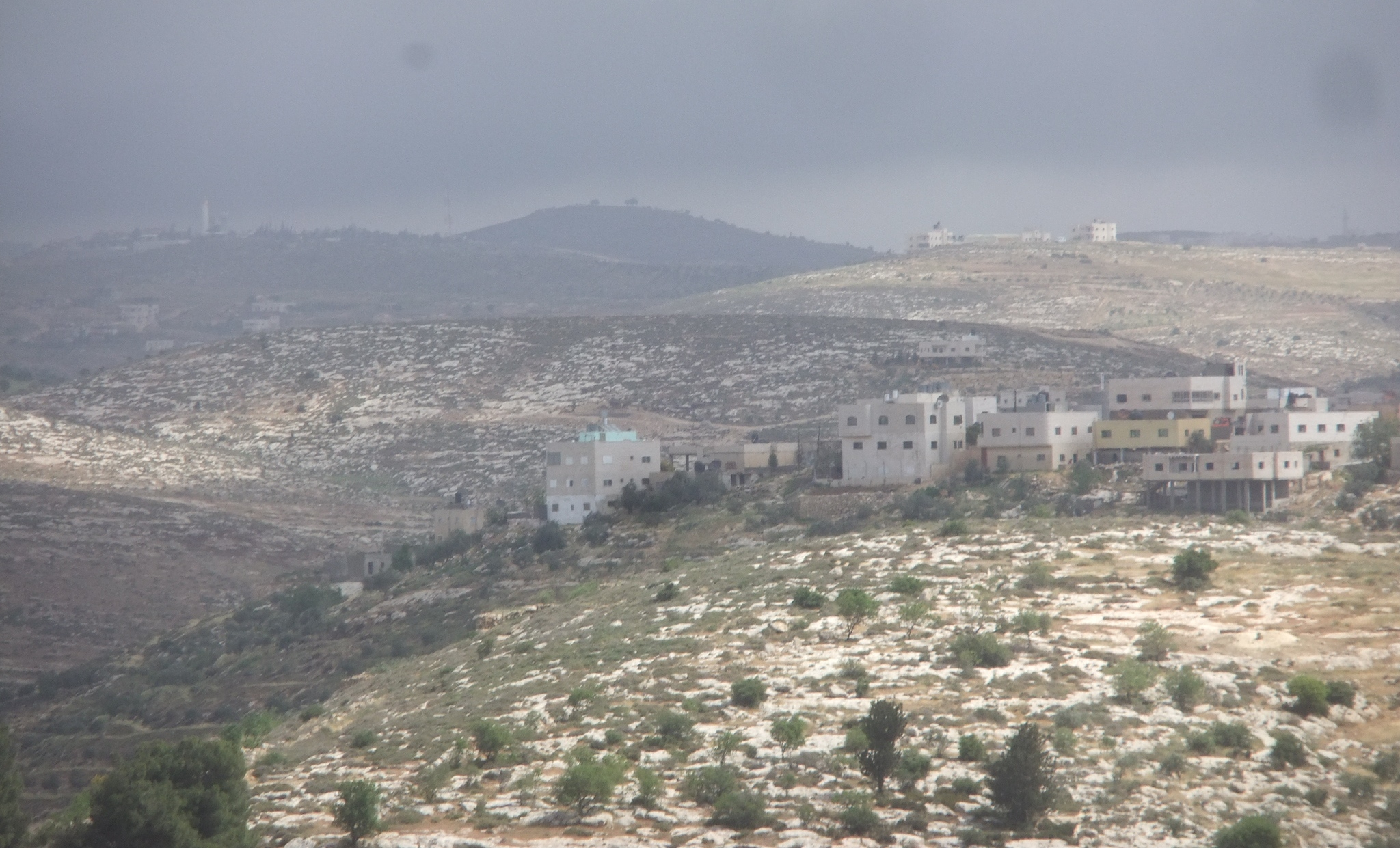 Beit Amra from the west, the most northern houses. On the left , far away is the tower of Beit Hagai.